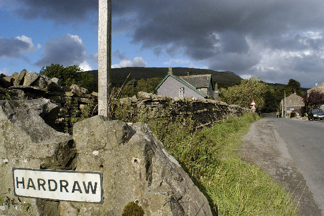 Hardraw village in the Yorkshire Dales in North Yorkshire, England